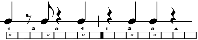 This file is a derivative montage of designs in the public domain